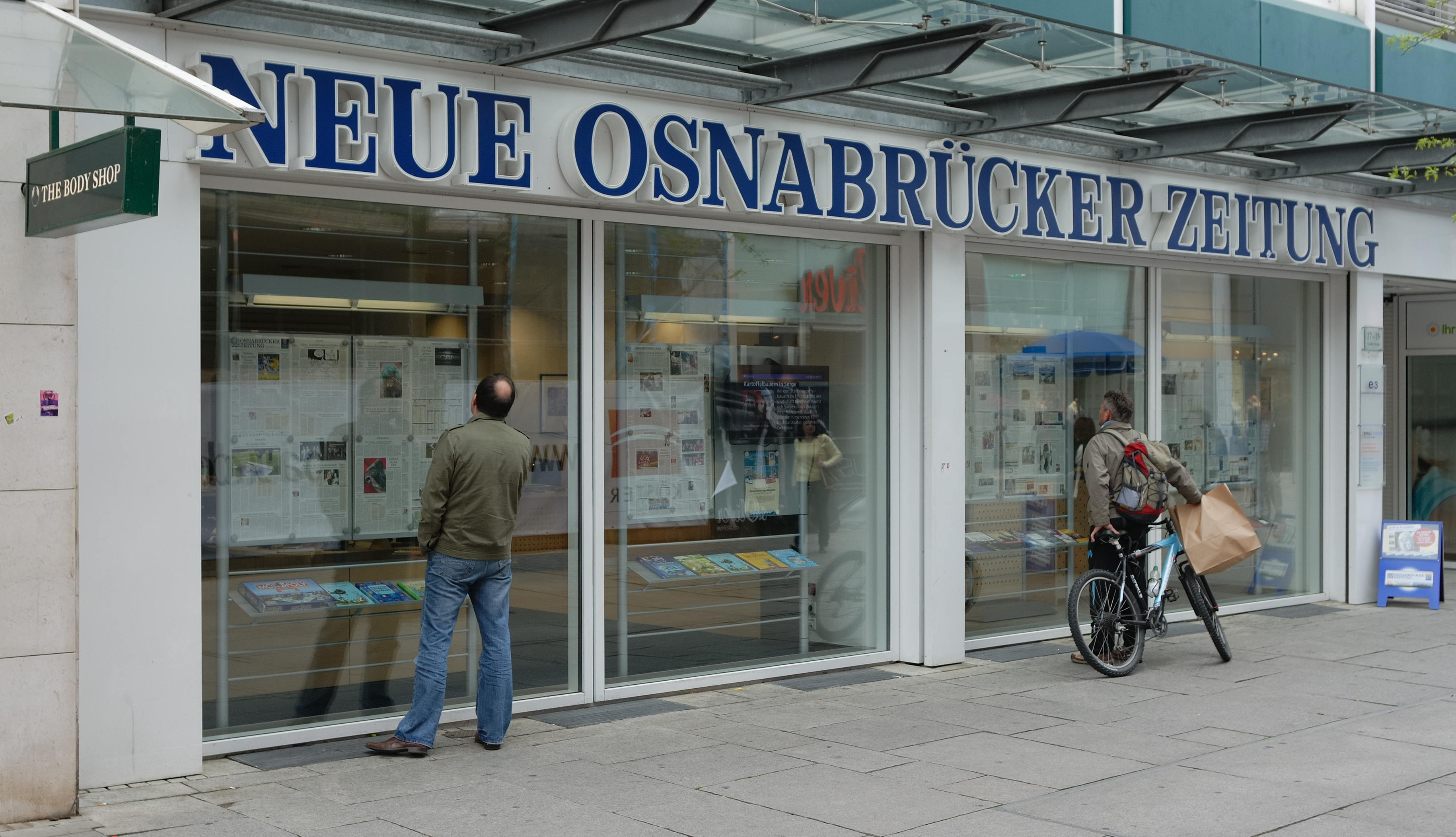 People reading the display of daily newspaper Neue Osnabrücker Zeitung (New Osnabrück Newspaper), Osnabrück.